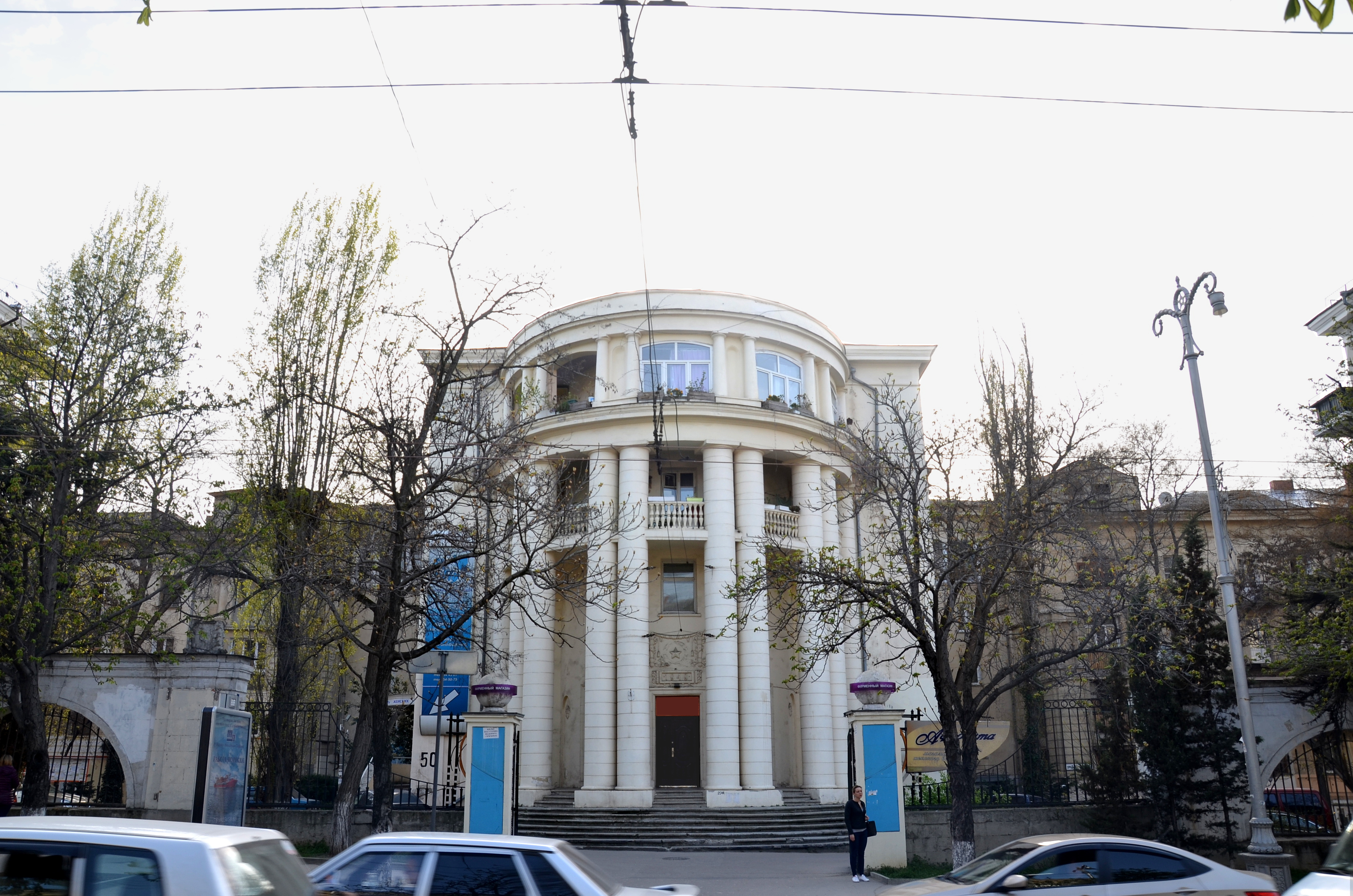 Bolshaya Morskaya, 50 (Sevastopol)